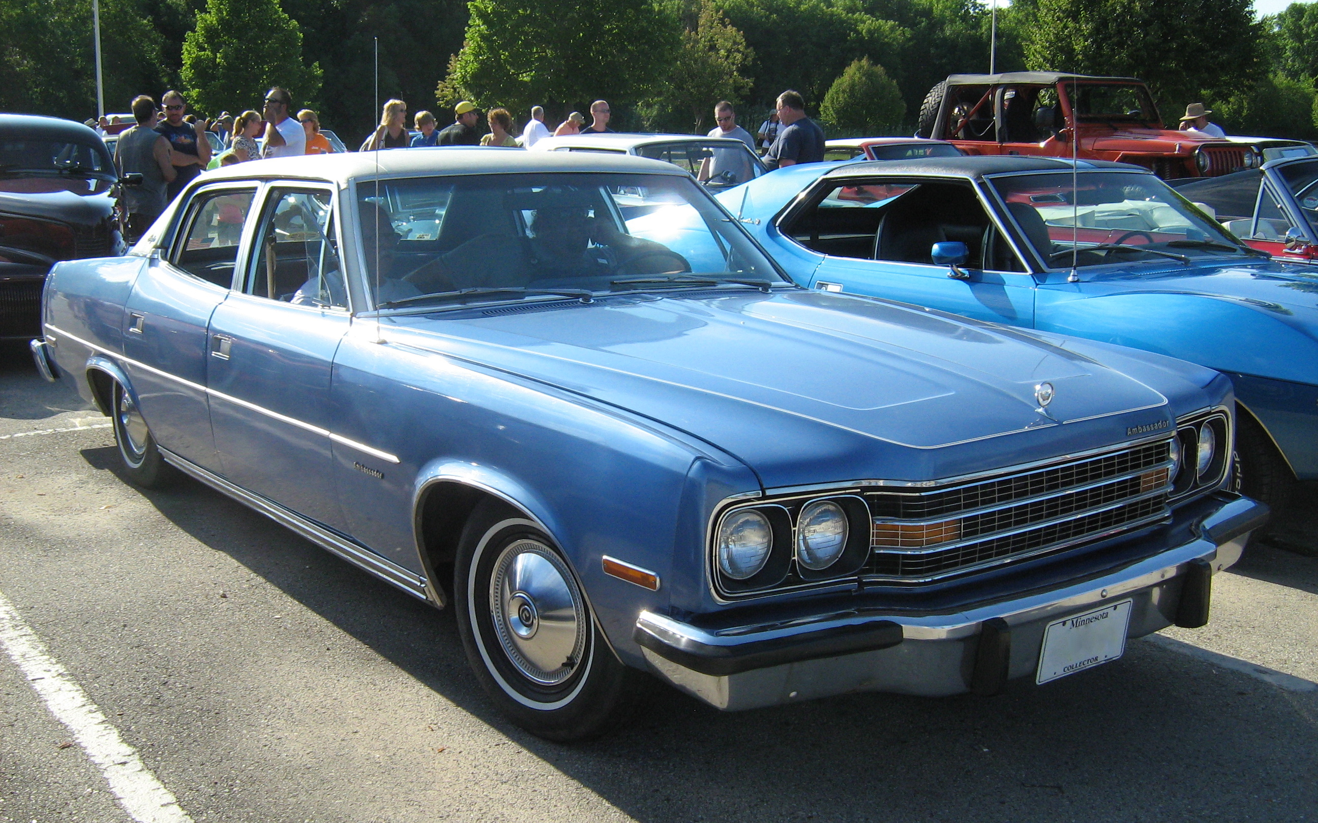 1974 AMC Ambassador Brougham four-door sedan finished in blue with a white vinyl covered roof and standard white bodyside and hood pin stripes. Built by American Motors in Kenosha, Wisconsin. All Ambassadors were equipped with V8 engines, automatic transmissions, power steering and disk brakes, air conditioning, radio, and numerous other standard comfort features.